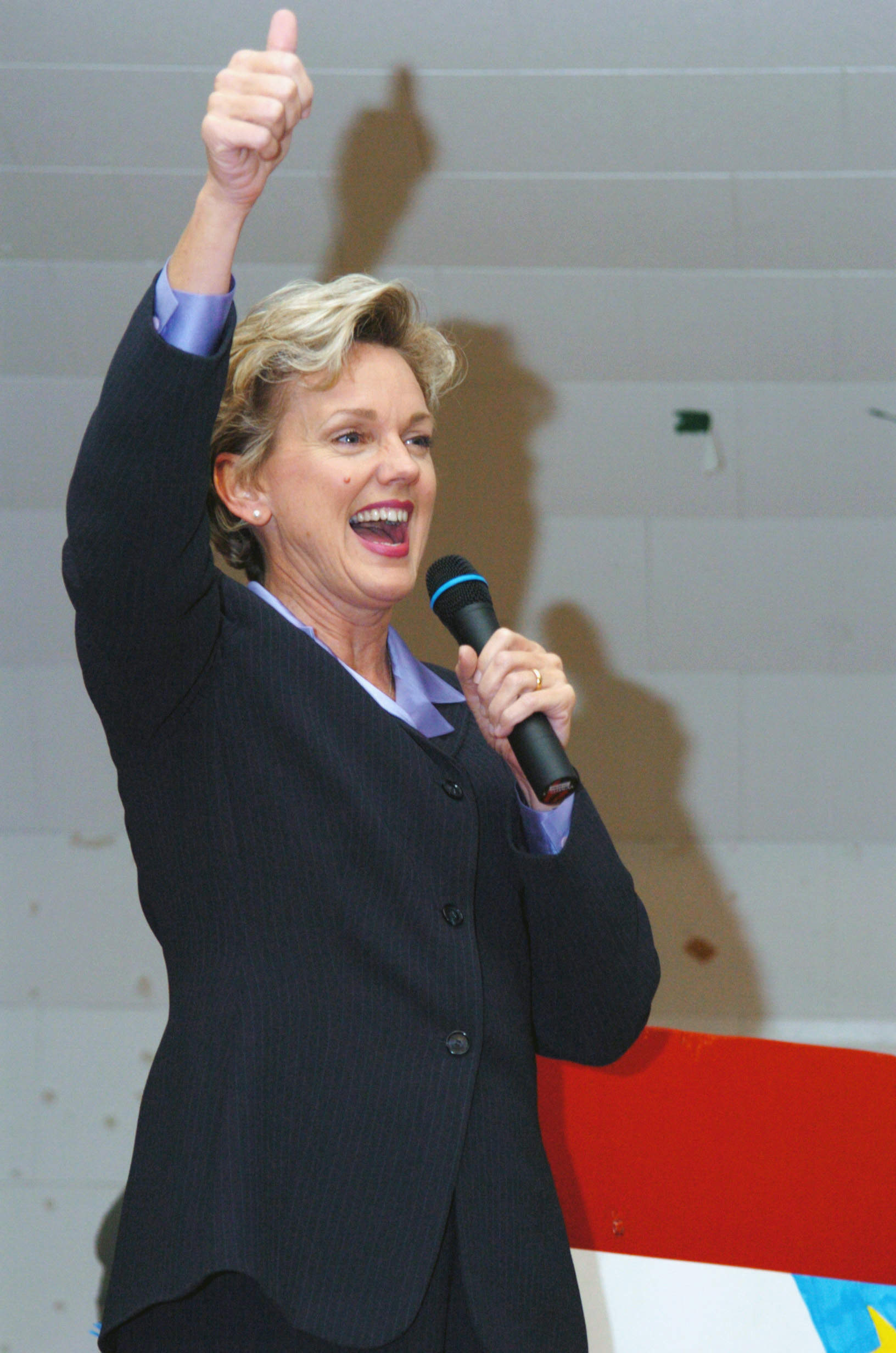 The Honorable Jennifer Granholm, Governor of the State of Michigan (MI), gives a thumbs up sign during her speech, during a Welcome Home Ceremony for US Army (USA) Soldiers assigned to Headquarters (HQ), 1st Battalion, 119th Field Artillery (1-119th FA), Michigan Army National Guard (MIARNG), returning home at the armory in Lansing, Michigan (MI), following a one year tour of duty in Iraq. (A3596)